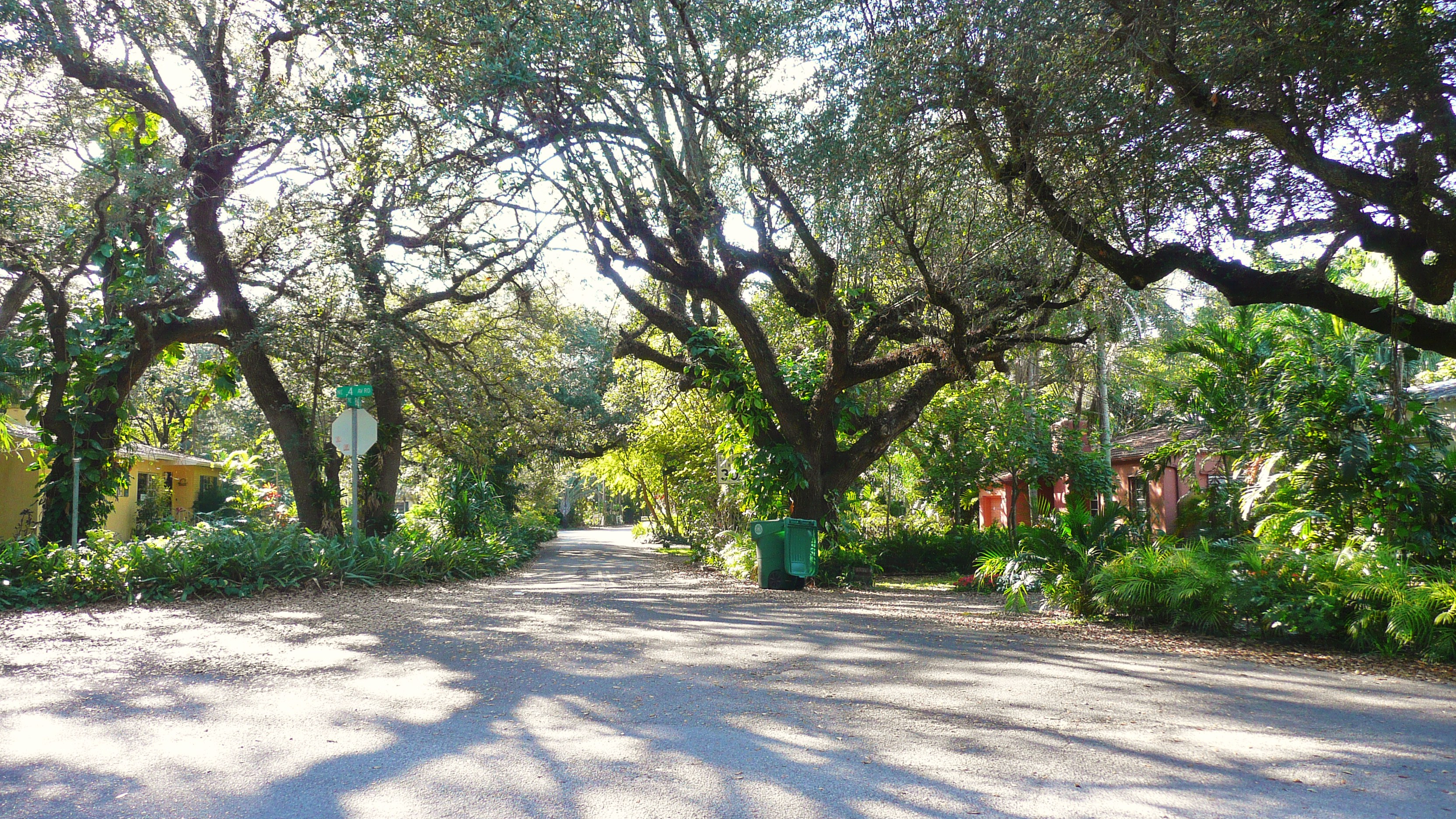 Digital photo taken by Marc Averette. Street in El Portal, Florida, United States.